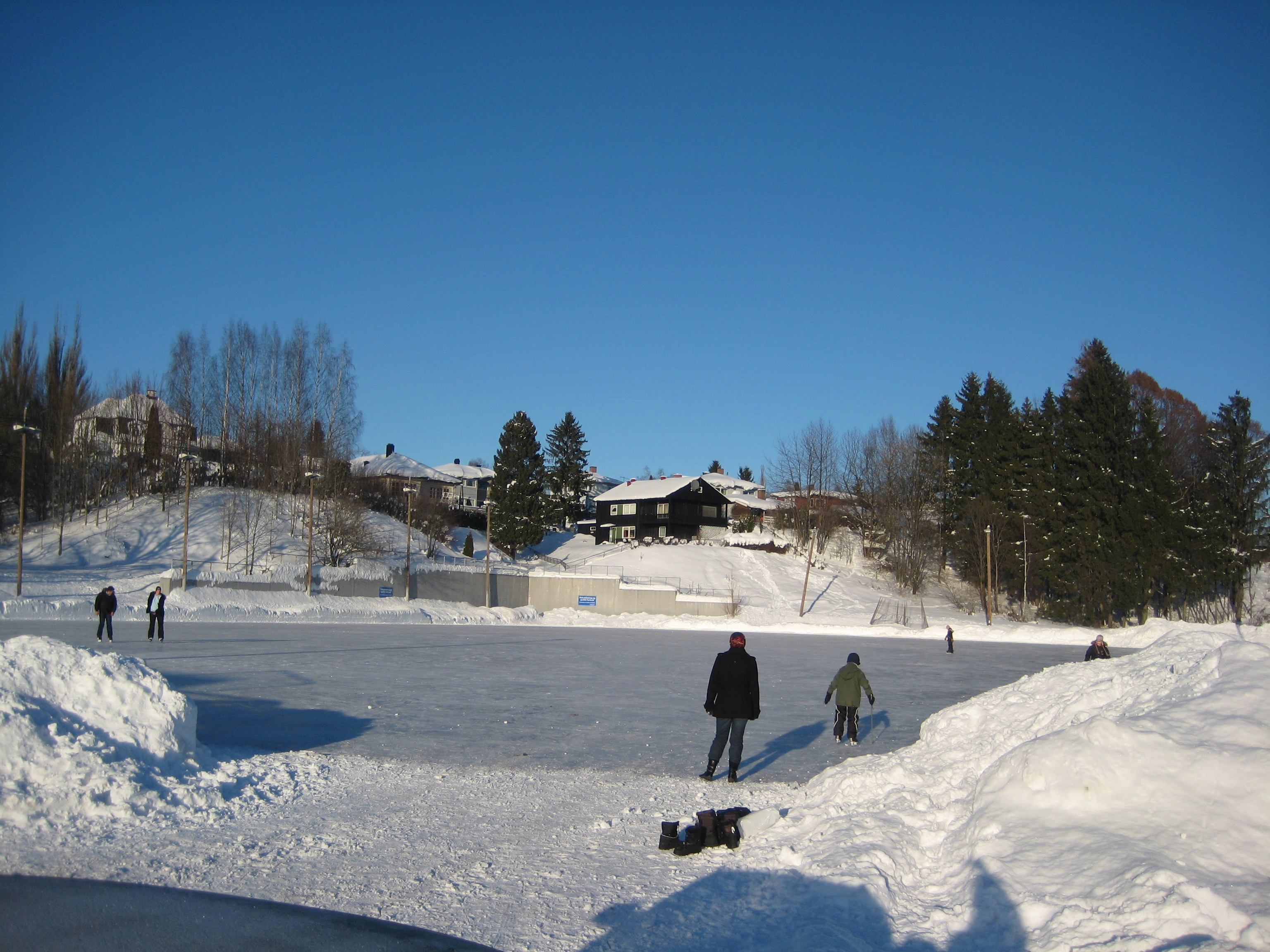 Brakeroyabanen Drammen on a sunny winter day. Skating field for bandy. Homefield of Sparta/Bragerøen